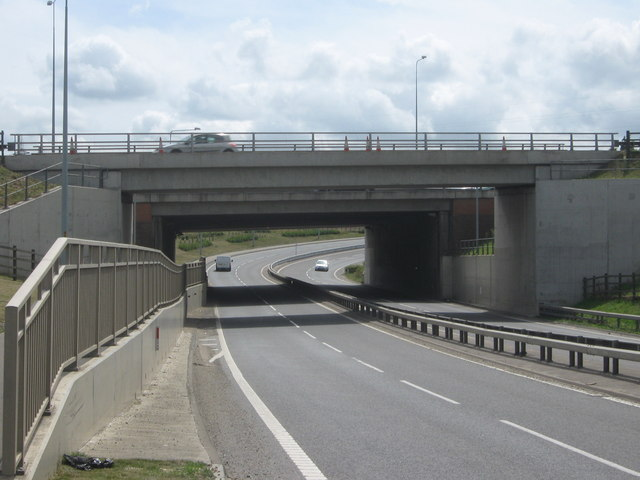 Bridges over B259 Southfleet Road The B259 Southfleet Road heads from Swanscombe and new Ebbsfleet Railway Station towards the A2 Dual Carriageway or to Betsham. The Dual Carriageway heads left to Gravesend/Northfleet from London. The first bridge is an off-ramp road from the A2 towards Gravesend / Northfleet.